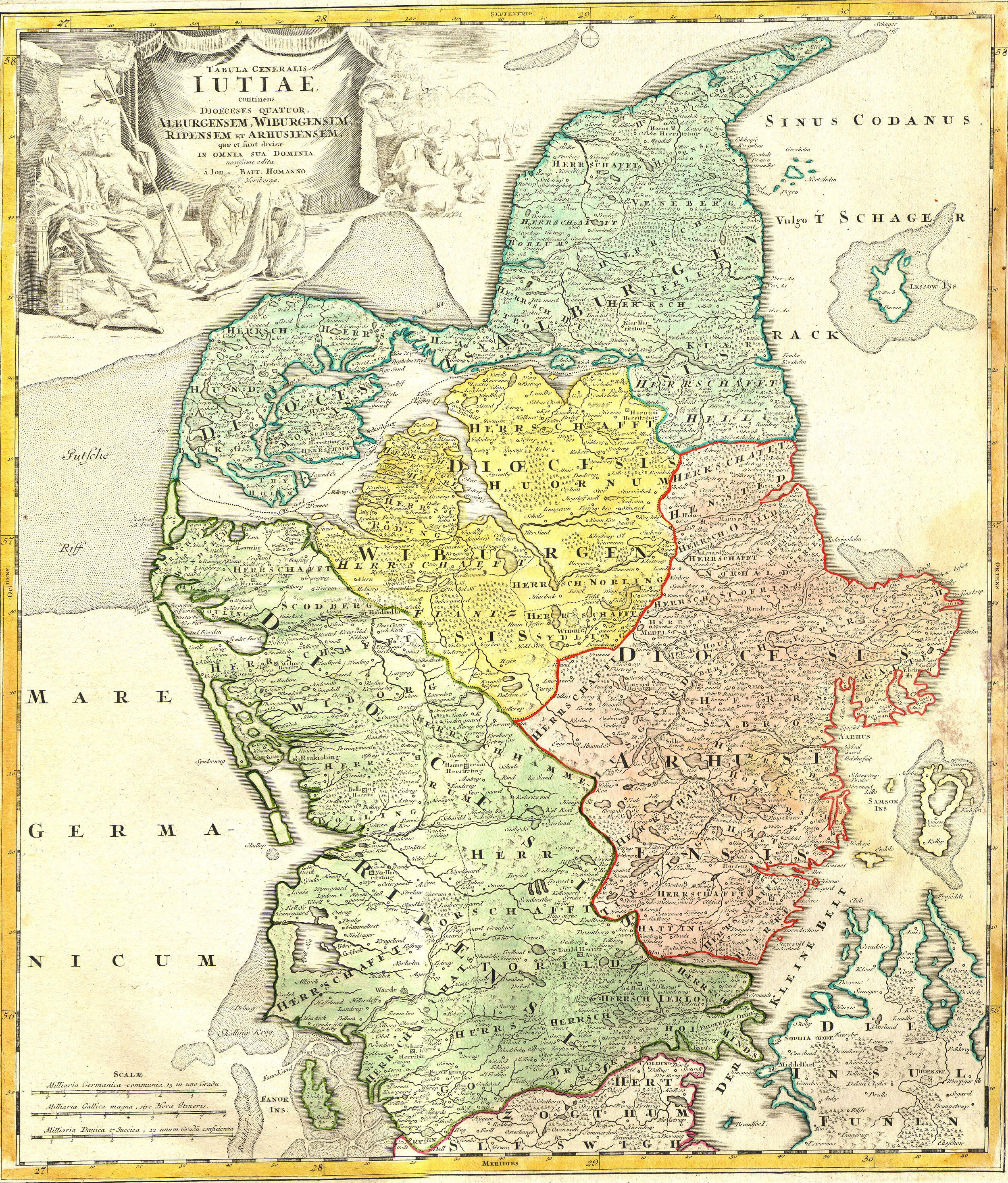 This is a historically important and spectacular 1710 Homann map part of Denmark. Formally titled Tabula Generalis Iutiae. Features a decorative title cartouche including Poseidon and others. Johann Baptist Homann (1663-1724), his son, Christoph Homann (1703-30) founded 18th century's most important German cartography firm around 1702 in Nurnburg. Six years after his father's 1724 death, Christoph retired from the map business on the condition that all future maps produced by the firm be published under the name of Homann Heirs.